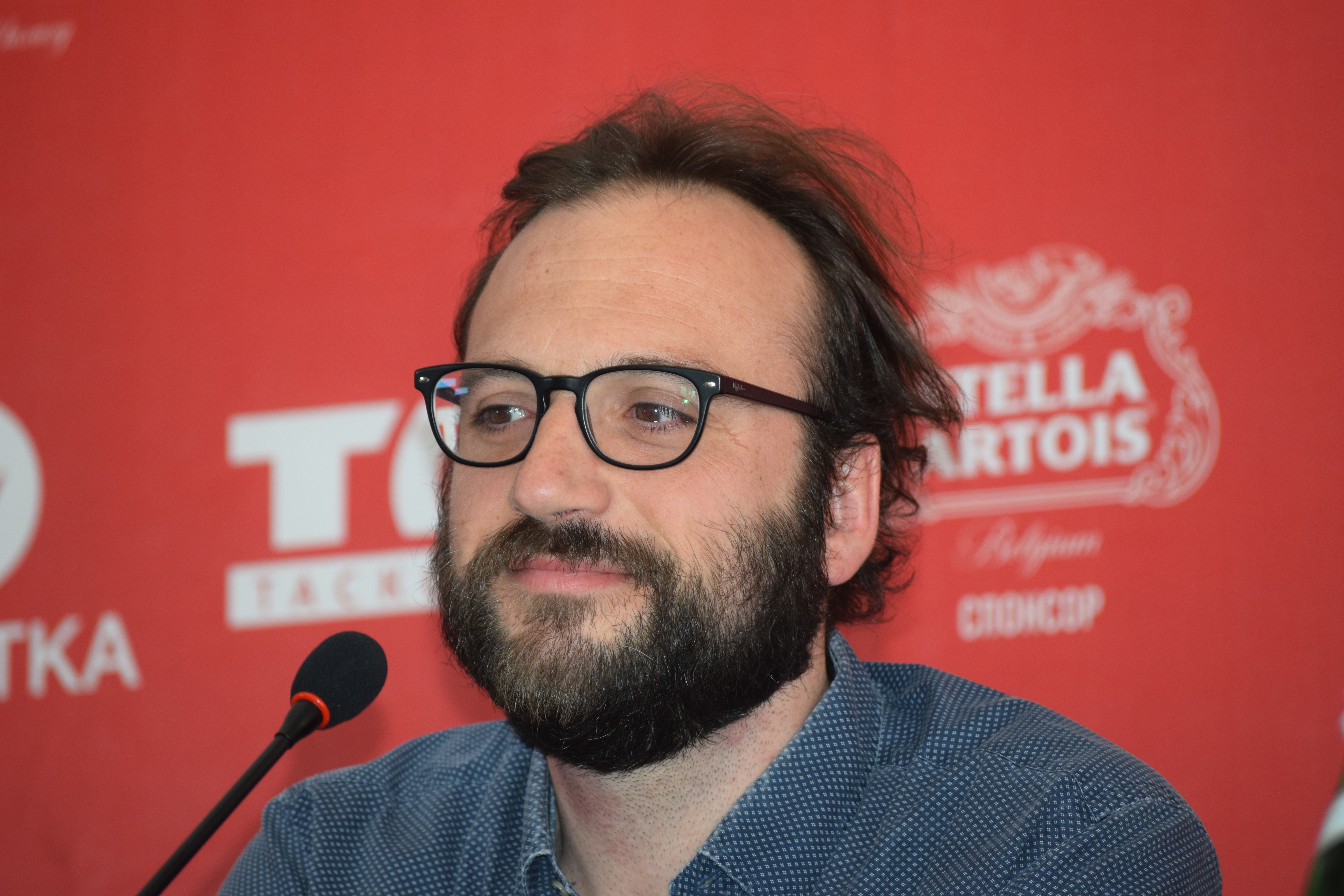 Jean-Jacques Rausin